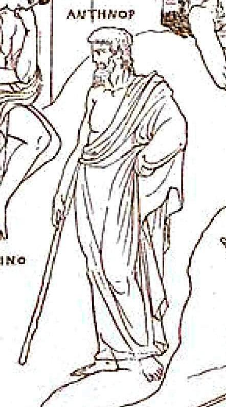 Detail form Reconstruction of Iliupersis by Polygnotus.JPG